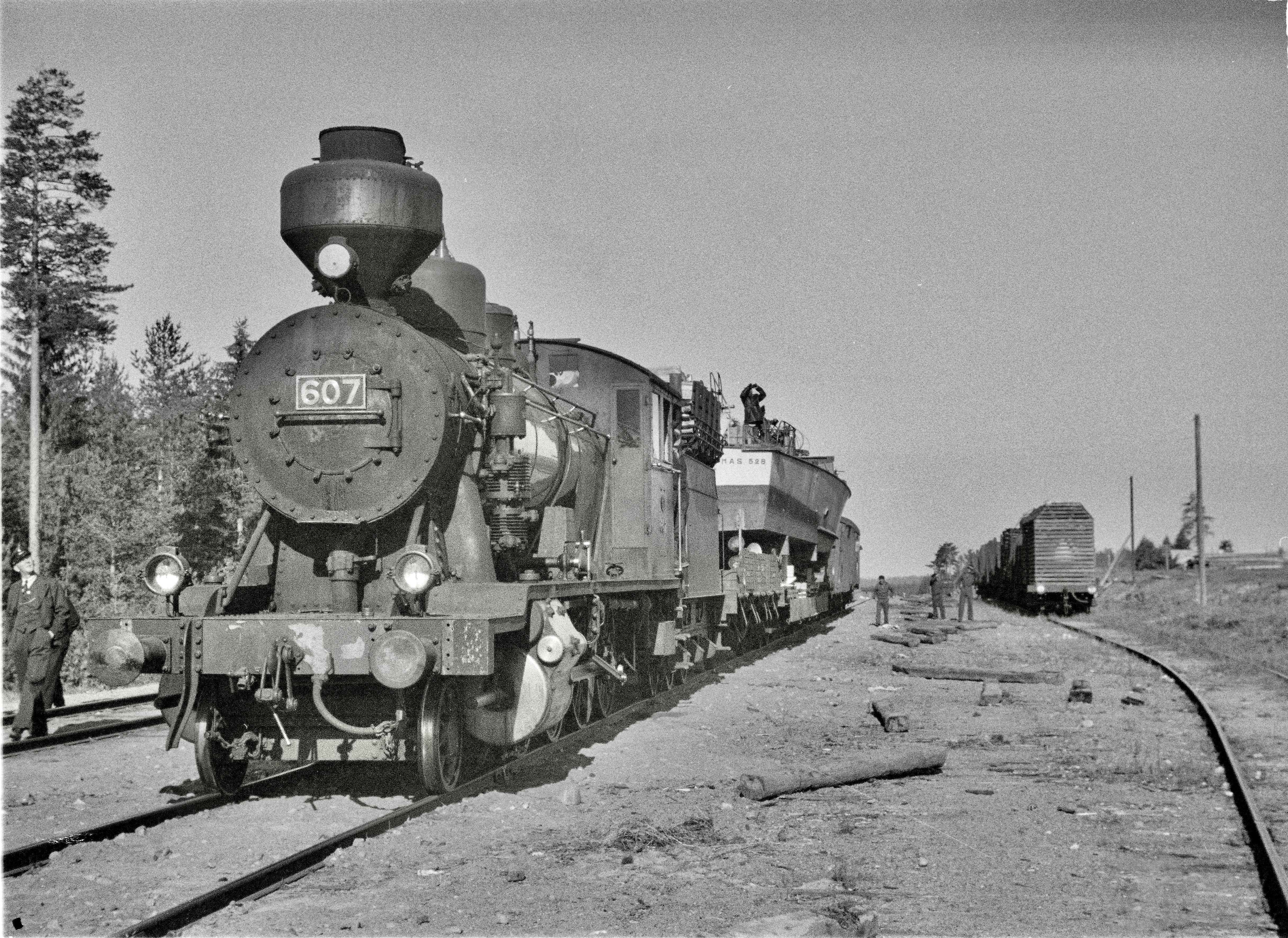 MAS 528 leaves Ihala railway station at 8.10 hours. Ihala 1942.06.18